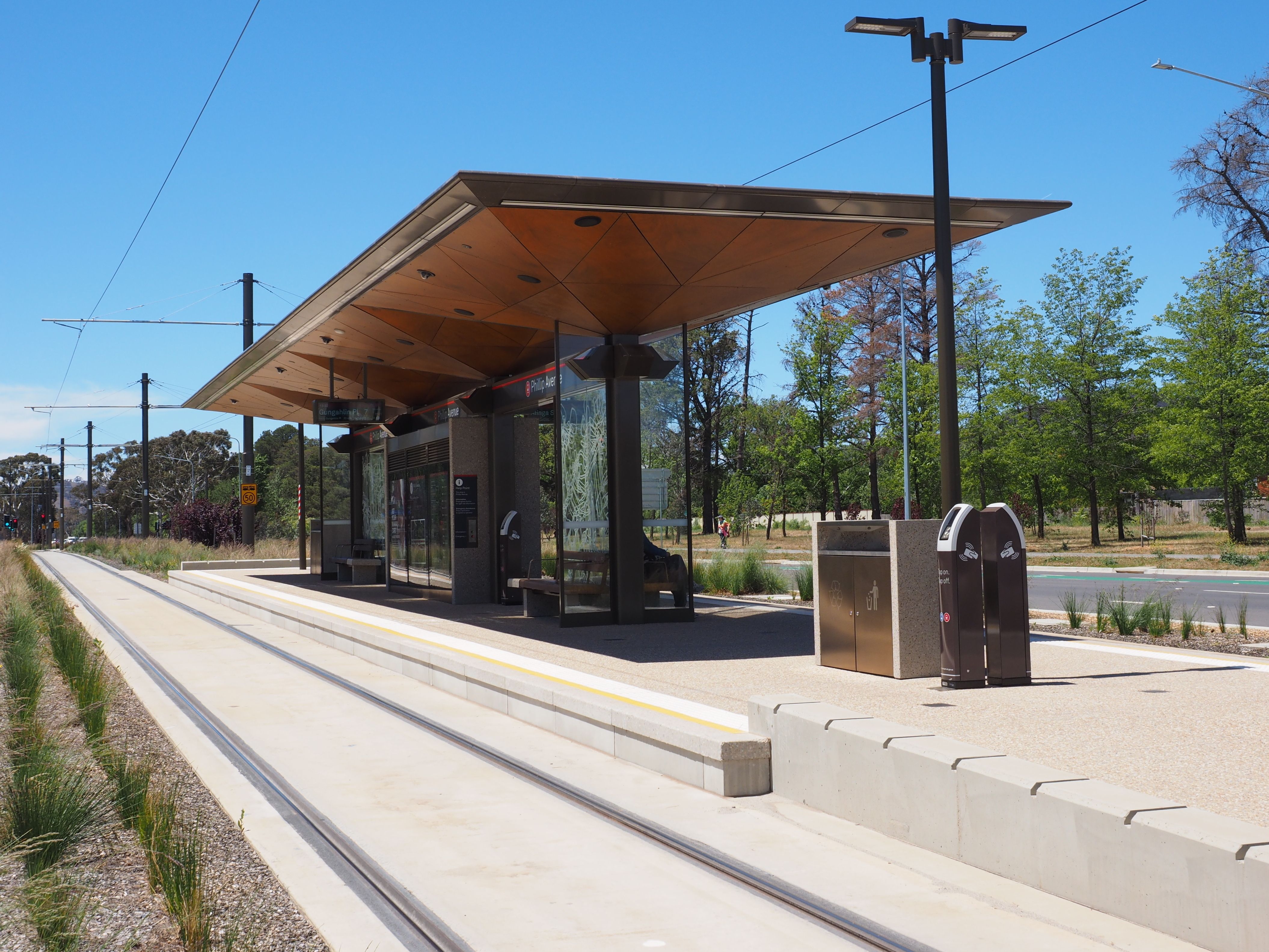 The Philip Avenue light rail stop viewed from the south-west